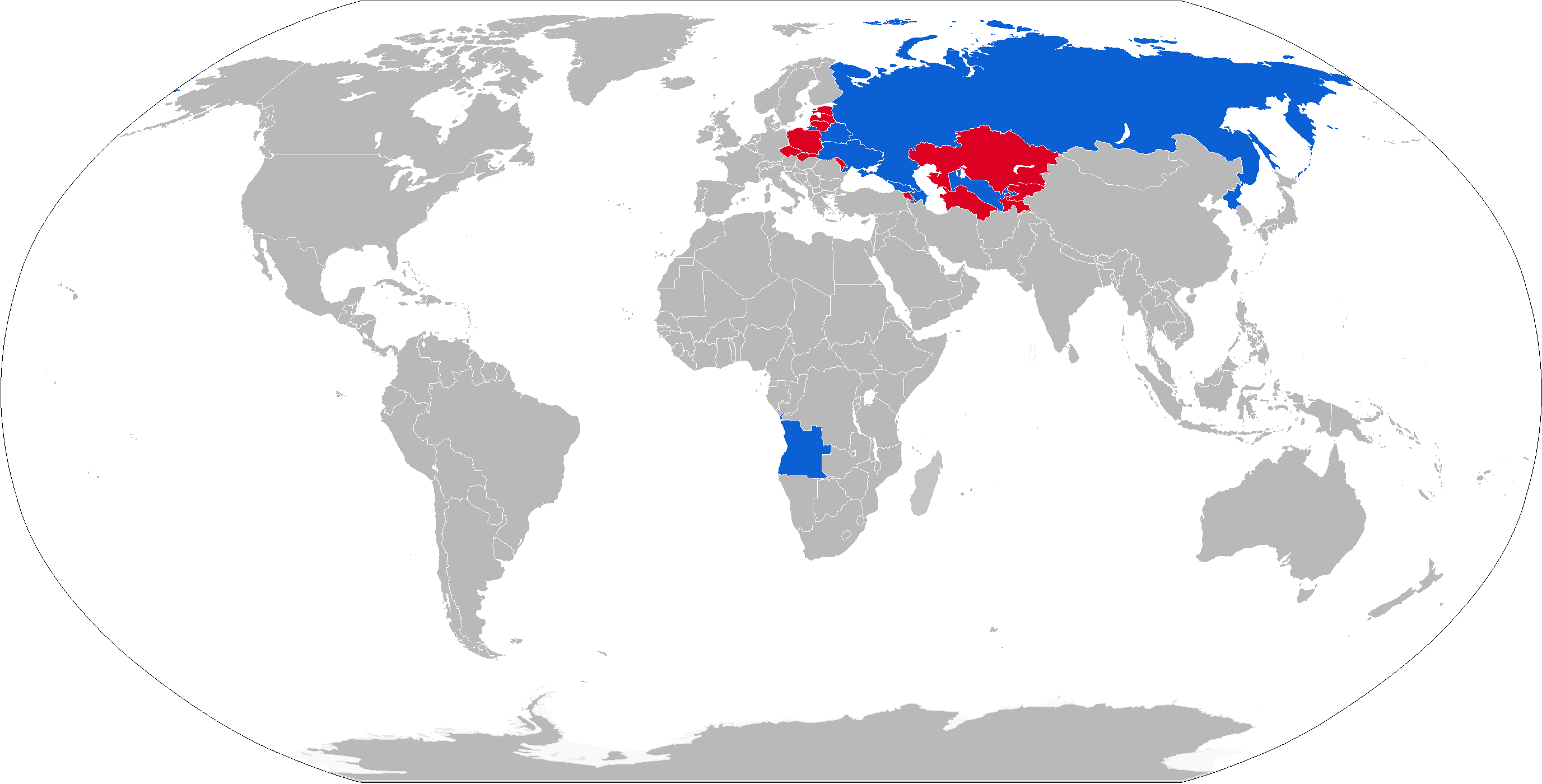 Map with 2S7 Pion operators in blue with former operators in red